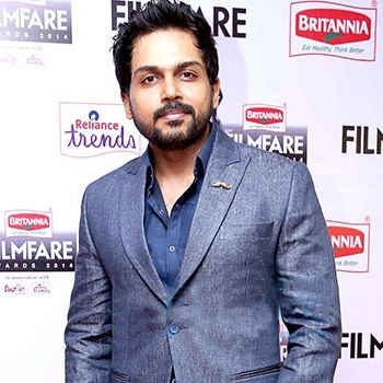 Karthi at the 62nd Filmfare Awards South ceremony held in Nehru Stadium, Chennai